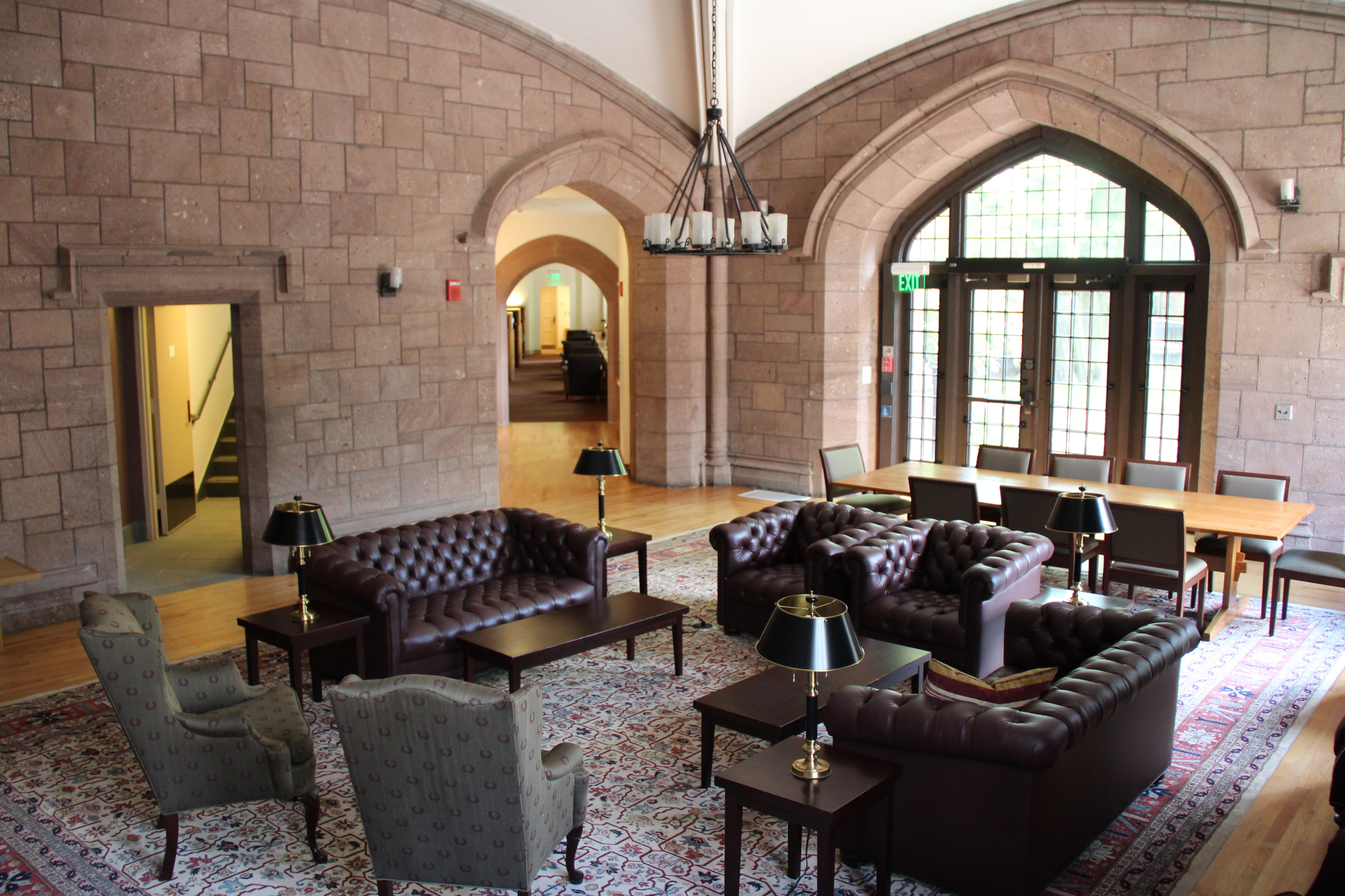 Robert Taft Library reading room, Jonathan Edwards College